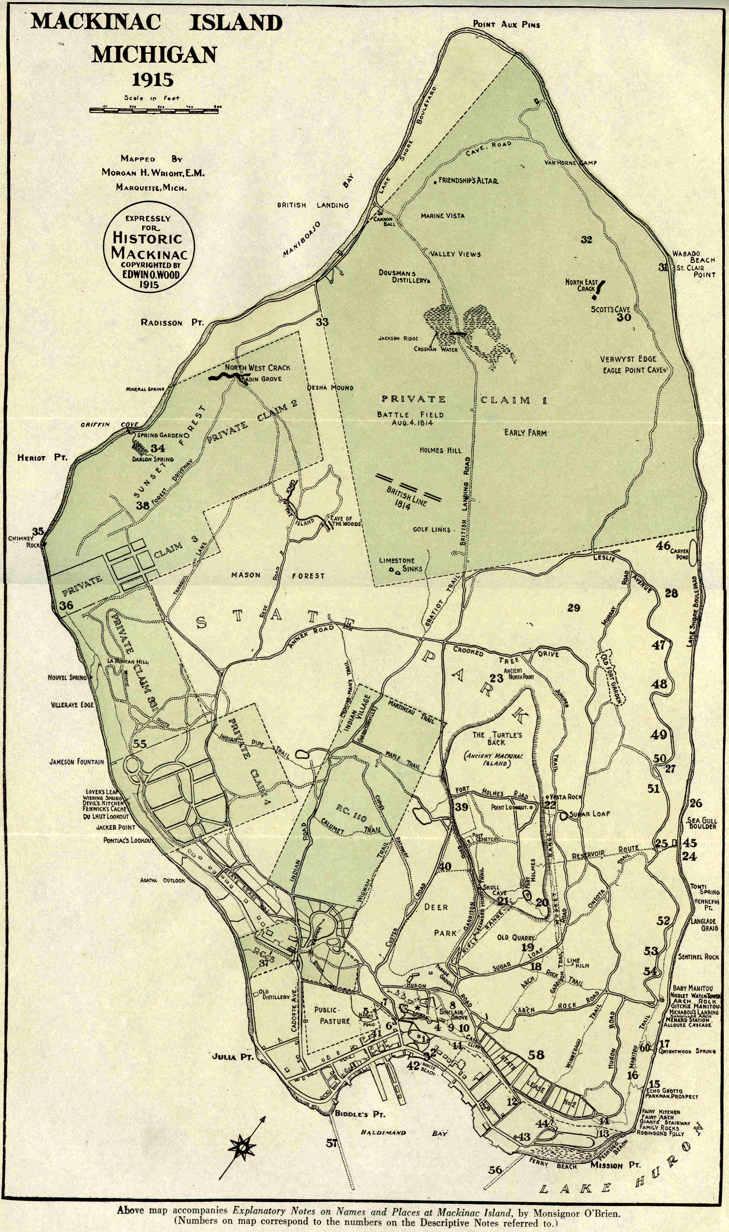 Map of Mackinac Island, MI, by Morgan H. Wright, E.M., Marquette, MI for Edwin O. Wood. 1918. Historic Mackinac, Volume 1 (of 2), p. 506 fold-out. The Macmillan Company: New York. Map Legend reads: Above map accompanies ‘‘Explanatory Notes on Names and Places at Mackinac Island’’, by Monsignor O’Brien (Numbers on map correspond to the numbers on the descriptive notes referred to.)